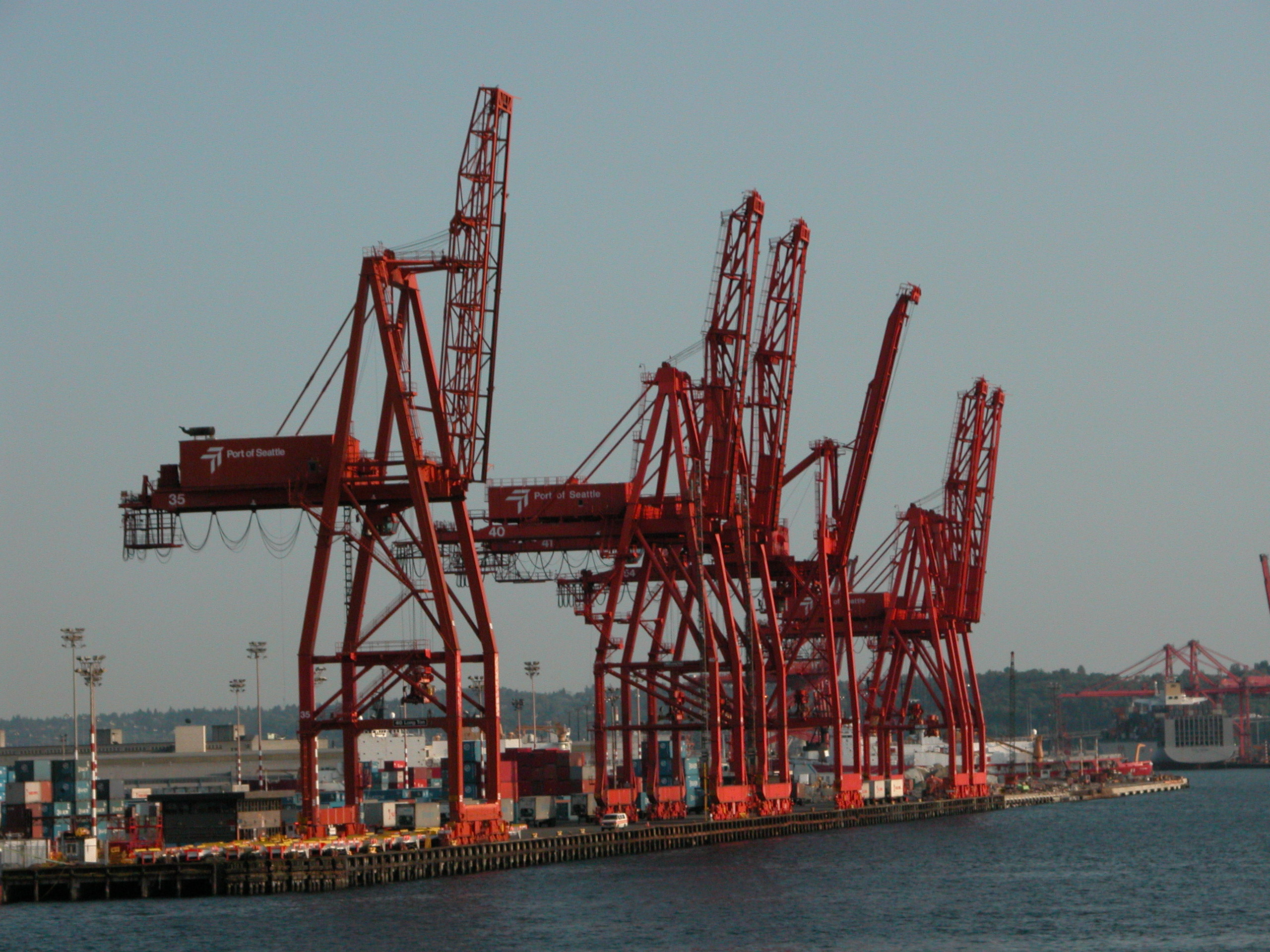 Cranes, Port of Seattle